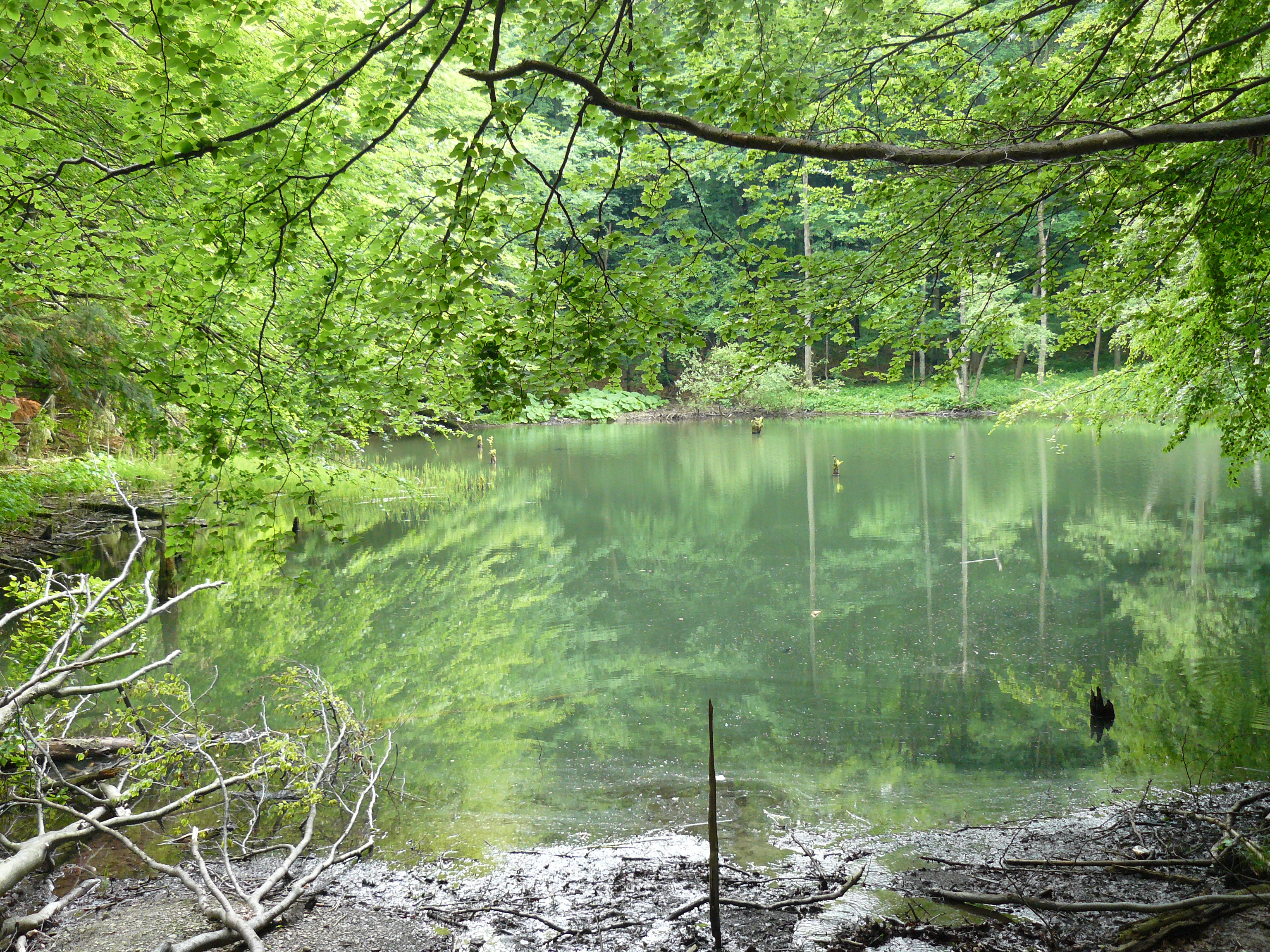 Duszatyn Lakes in nature reserve Zwiezło, under mountain Chryszczata (Bieszczady, Poland). The lower lake.